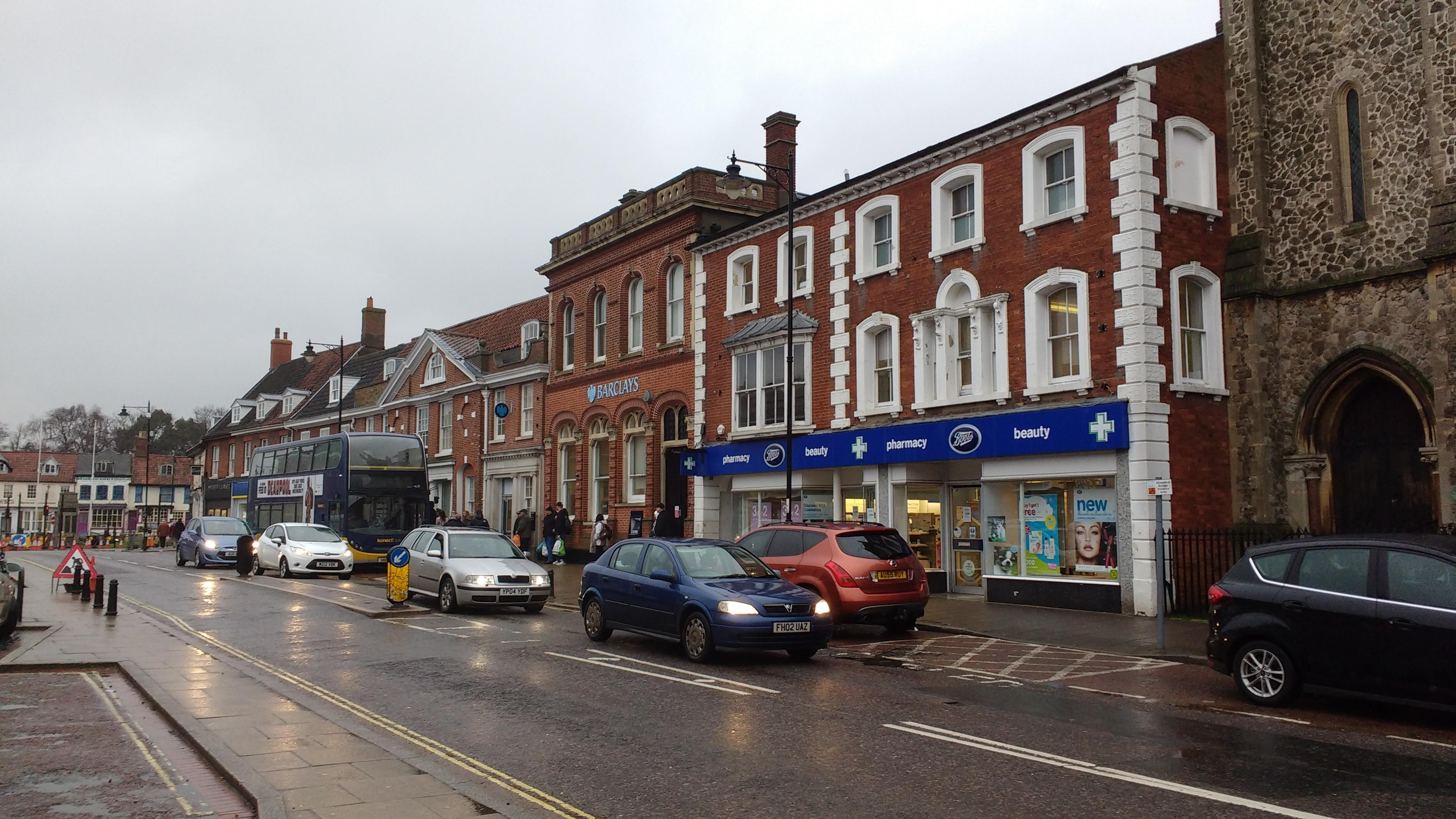 East Dereham